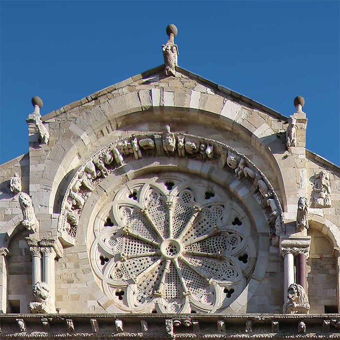 Cathedral of Troia, Apulia, Italy.